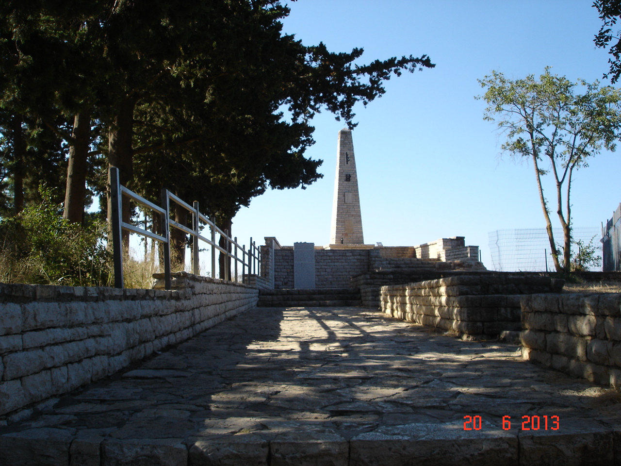 Safed Garden